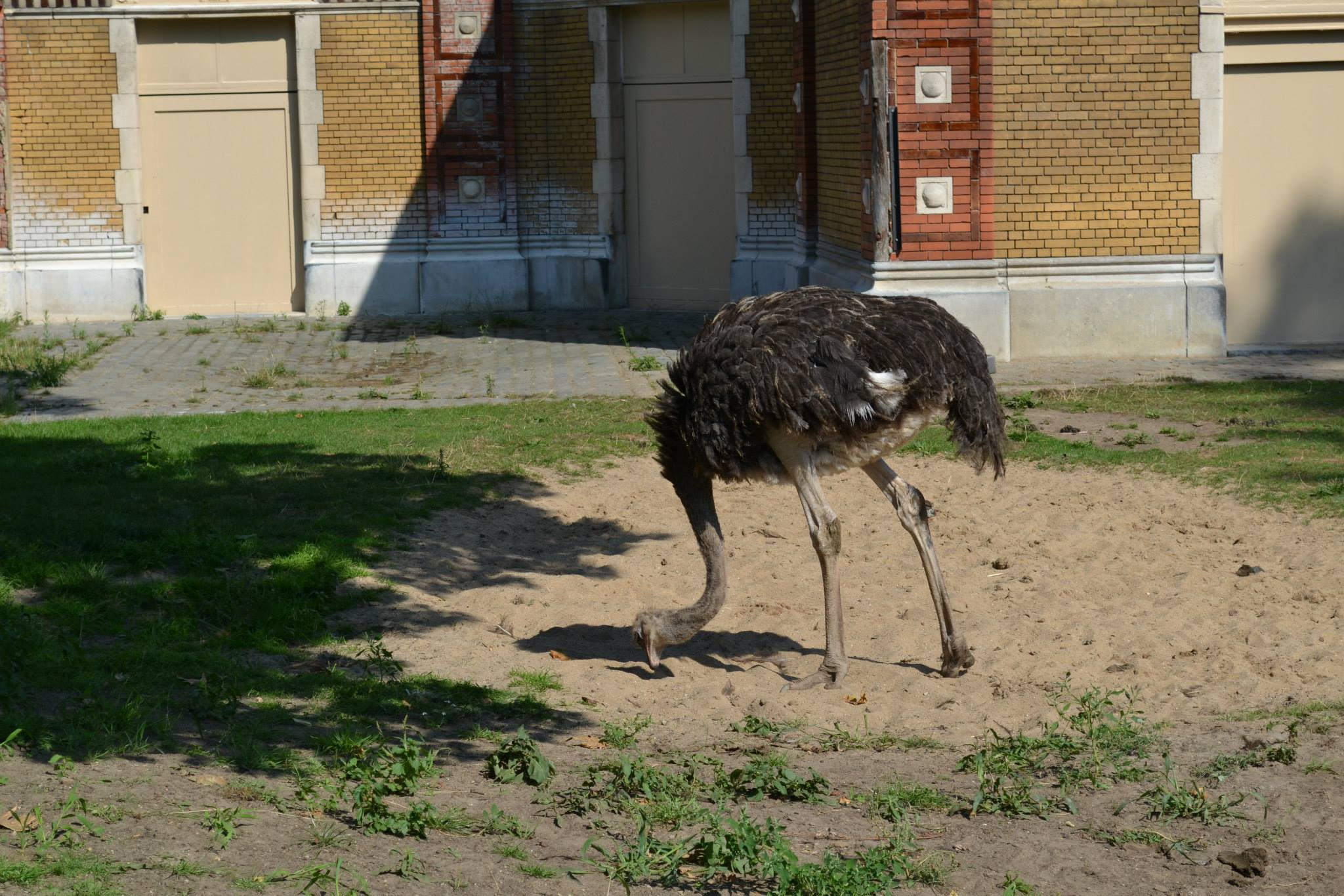 Giraffe in ZOO Antwerpen